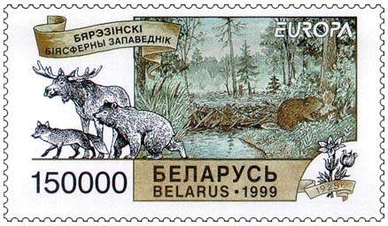 Stamp of Belarus